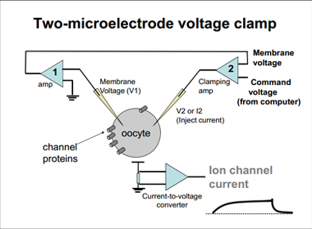 Two-microelectrode voltage clamp